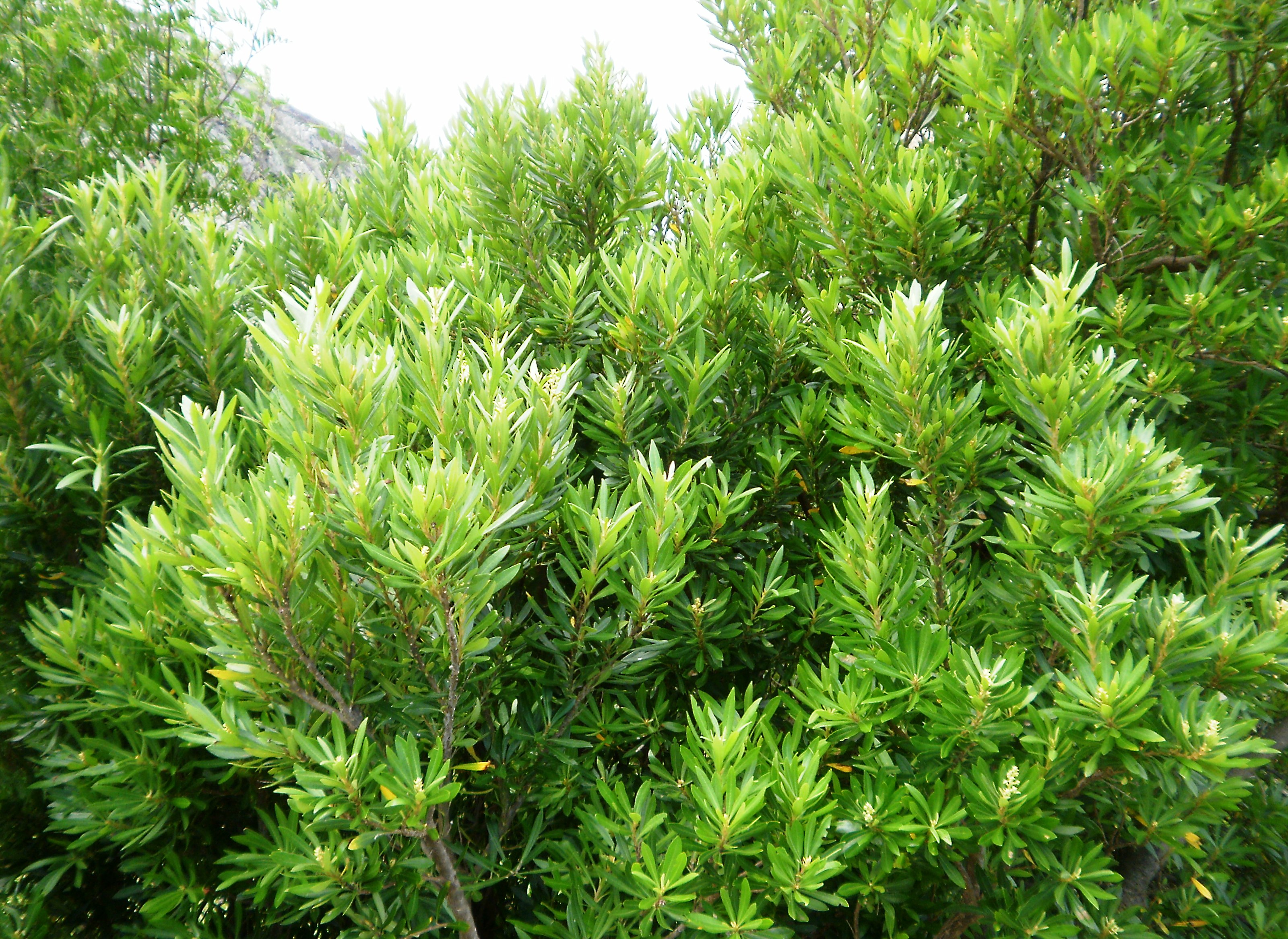 Brachylaena neriifolia tree. South Africa.